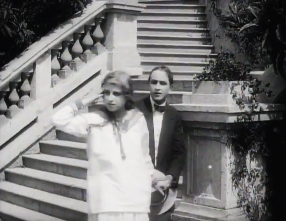 A still from Yevgeni Bauer's 1917 film Za schastem with Lev Kuleshov and Tasya Borman.